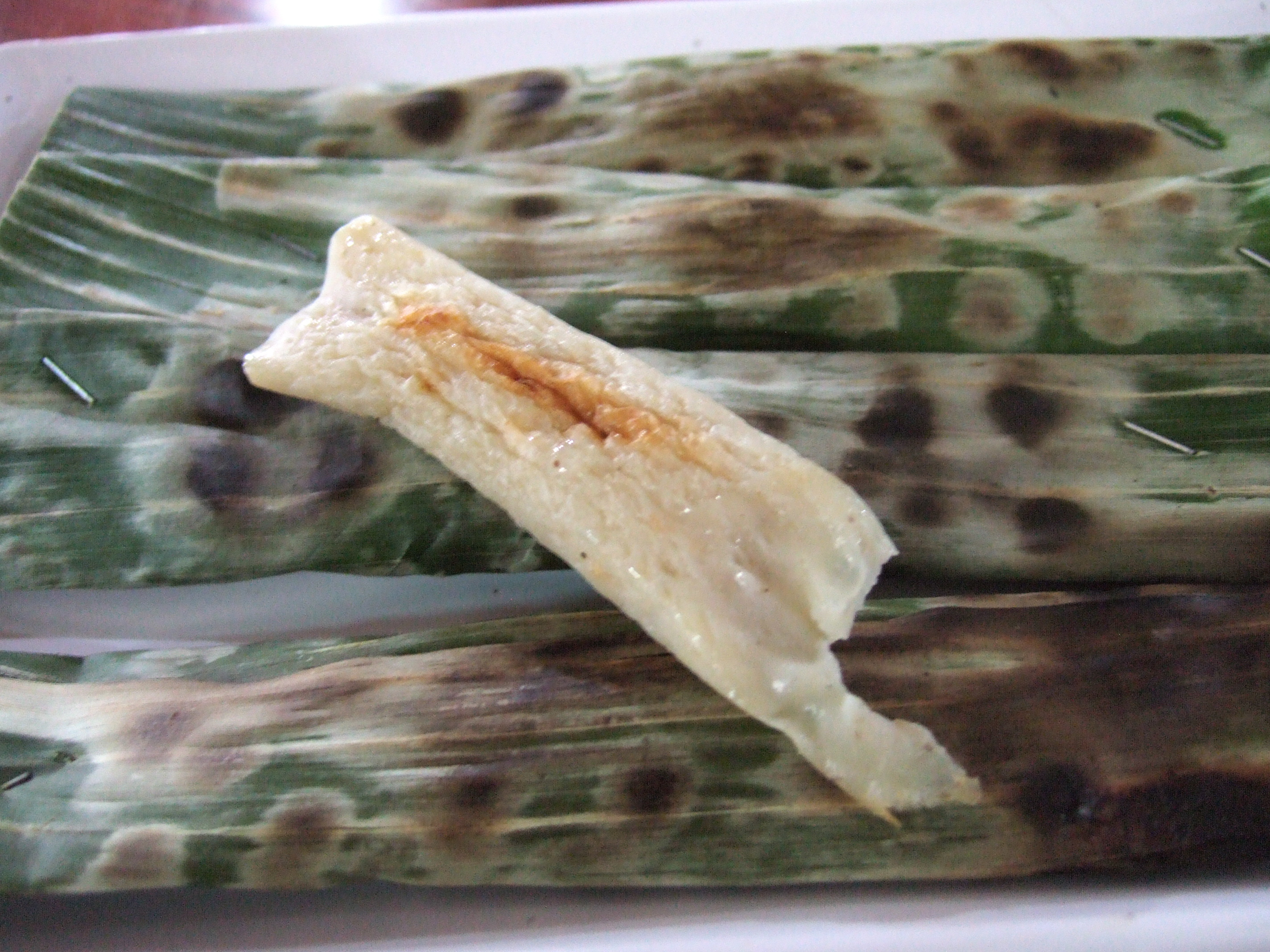 Otak-otak